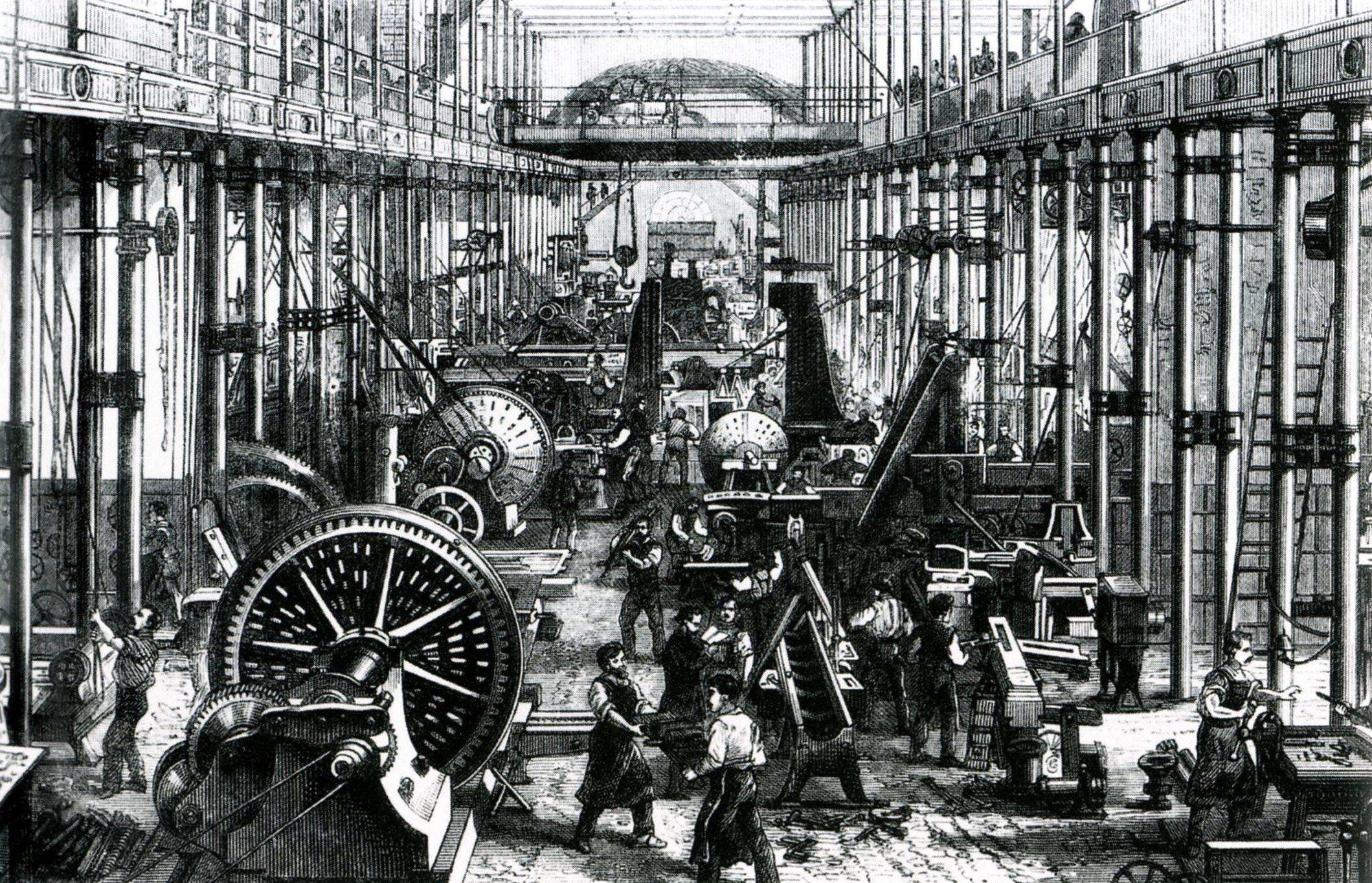 This image shows the machine works of Richard Hartmann in Chemnitz. Hartmann was one of the most successful entrepreneurs and largest employers in the Kingdom of Saxony.